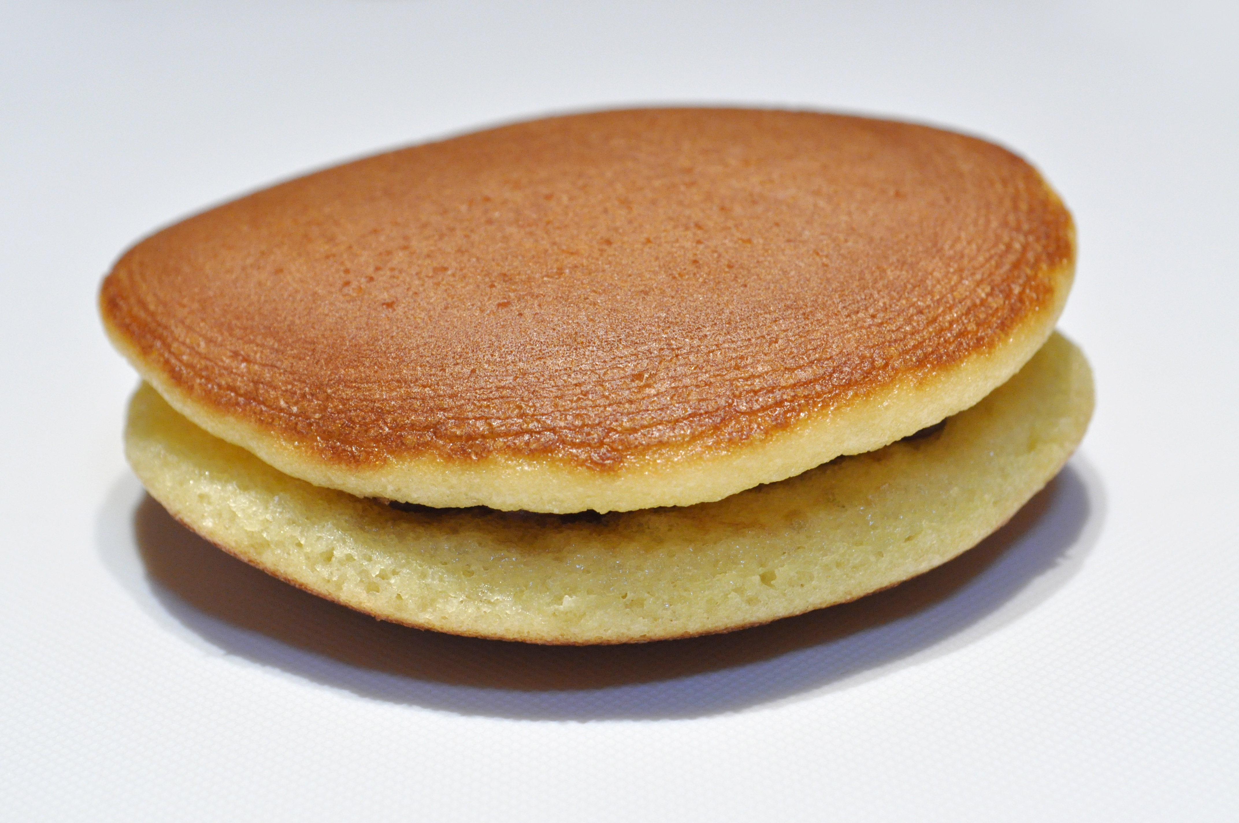 Typical Dorayaki